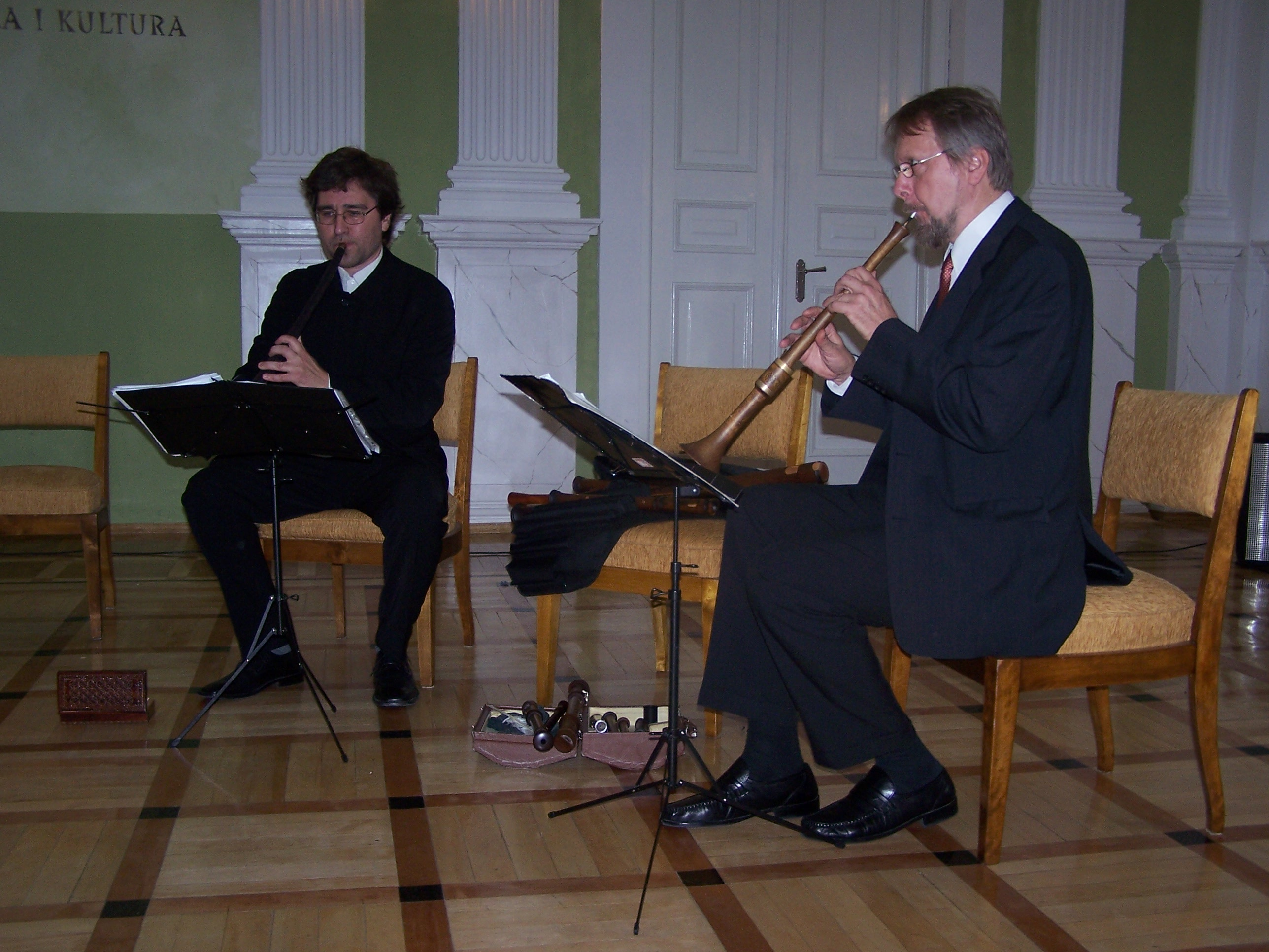 Two members of the Early music ensemble "Ars Nova" at the Polish festival 'Przyjechał Kurpś do Warsiawy'. On the right is the leader of the ensemble Jacek Urbaniak who plays on a shawm.